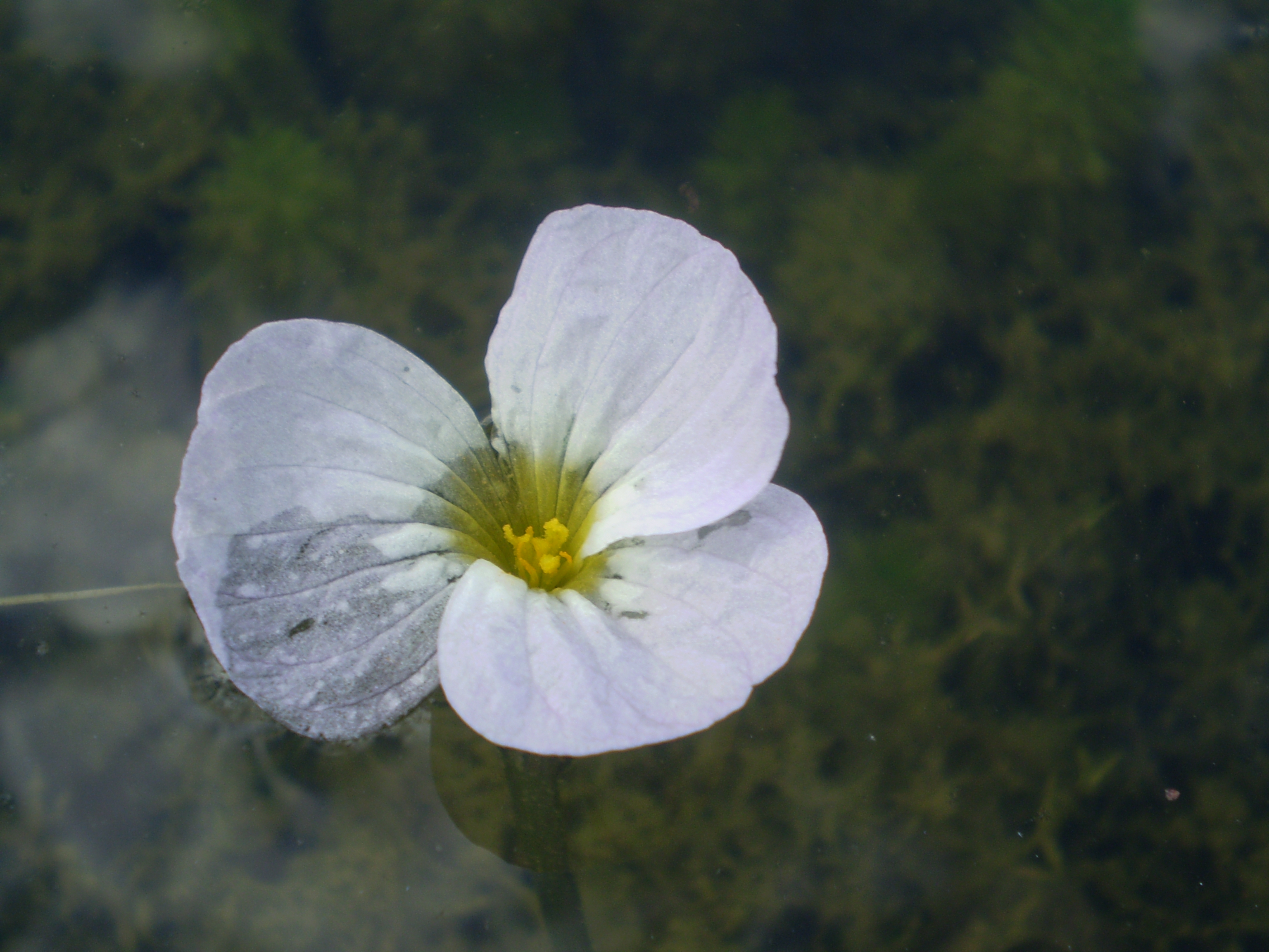 A Flower of Ottelia japonica(Mizuoobako)